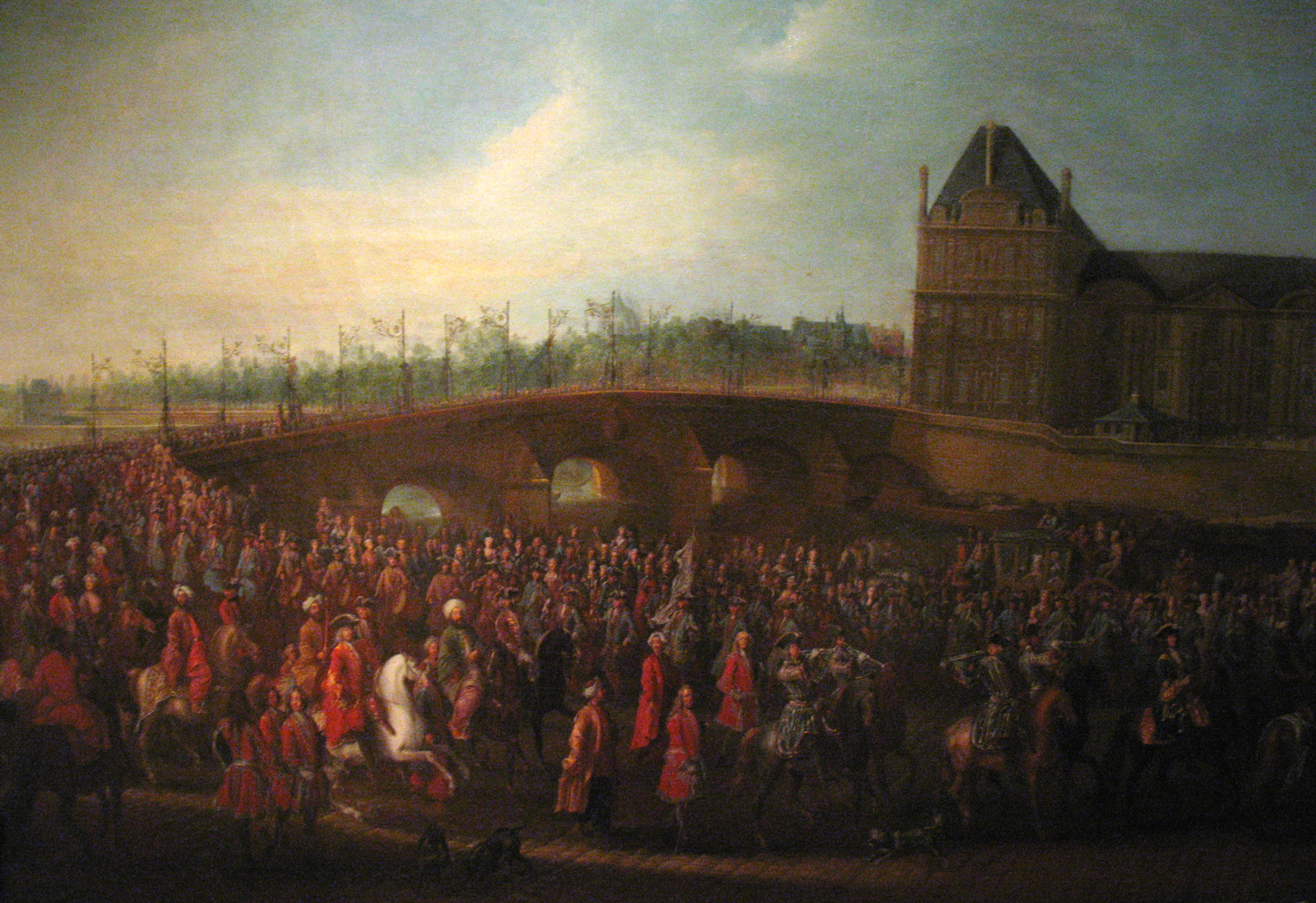 Sortie de l'ambassadeur de la Sublime Porte, Mehemet-Effendi, de l'audience accordée par le roi, le 21 mars 1721